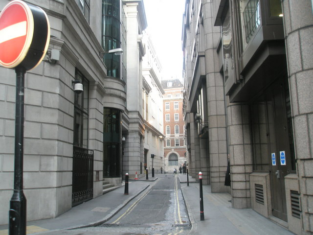 Nicholas Lane, EC4 A short cut-through from King William Street to Cannon Street.